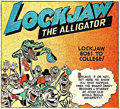 Cropped version of File:PunchandJudyV3-0135.jpg Punch and Judy Comics Volume 3, Page 35 October, 1947